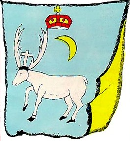 The banner of Imereti according to Prince Vakhushti's atlas, c. 1745.